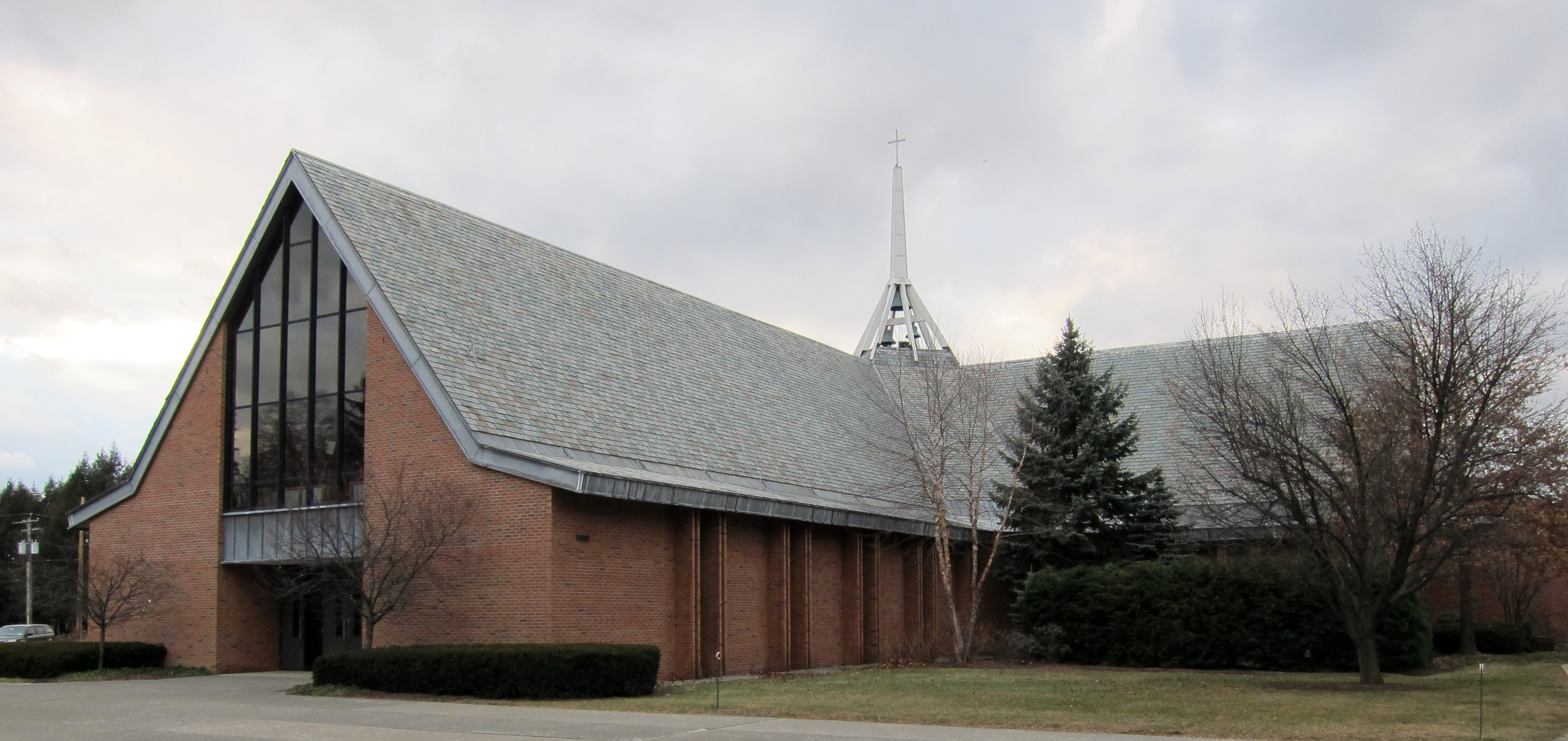 St. Pius X Catholic Church (Loudonville, New York), exterior 2